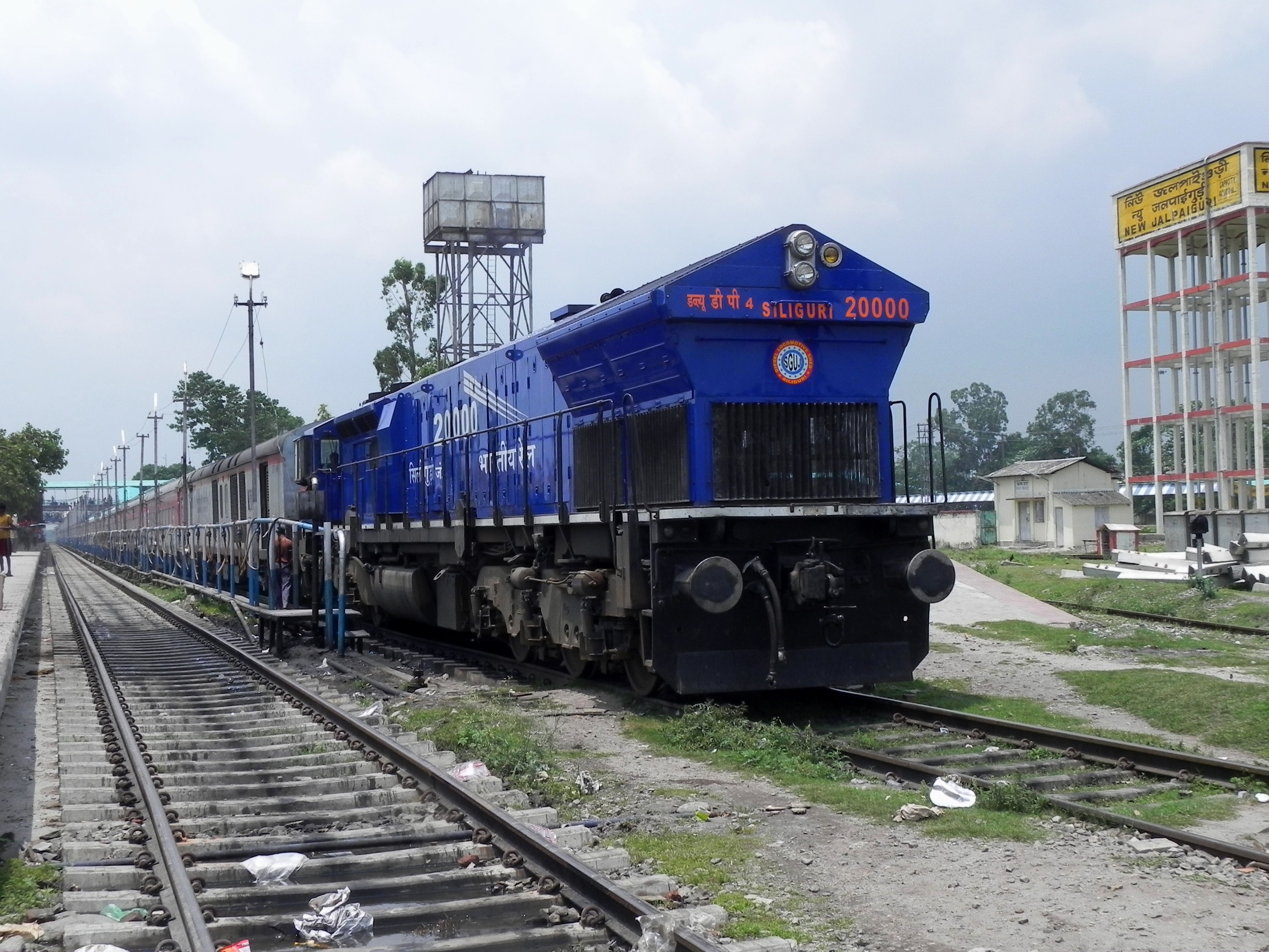 WDP-4 loco hauled Rajdhani Express (NDLS-DBRT) at New Jalpaiguri, West Bengal